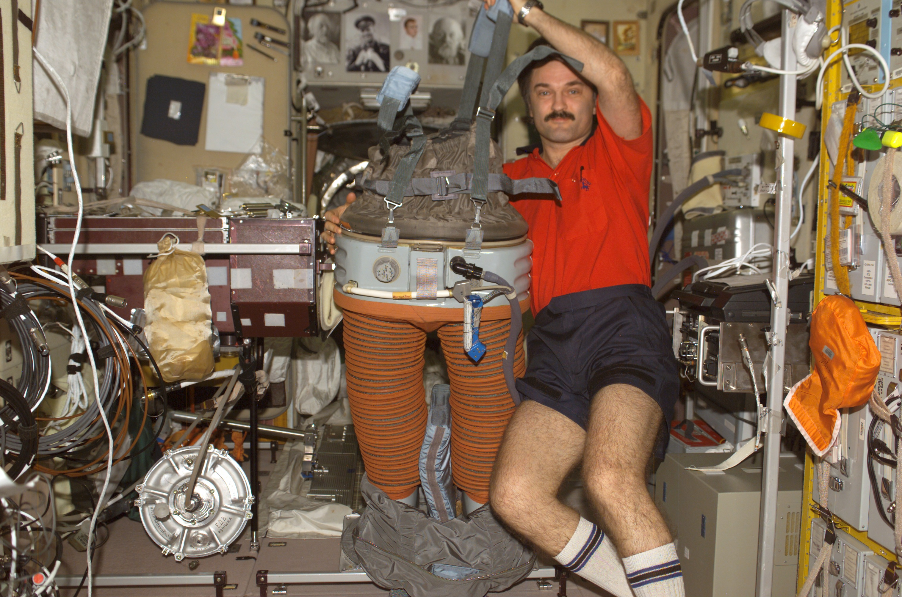 Cosmonaut Alexander Kaleri, Russia's Federal Space Agency Expedition 8 flight engineer, poses in the Zvezda Service Module, with the Russian Lower Body Negative Pressure (LBNP) or Chibis suit. He had donned the suit to prepare for a return to gravity following a lengthy stay onboard the International Space Station.